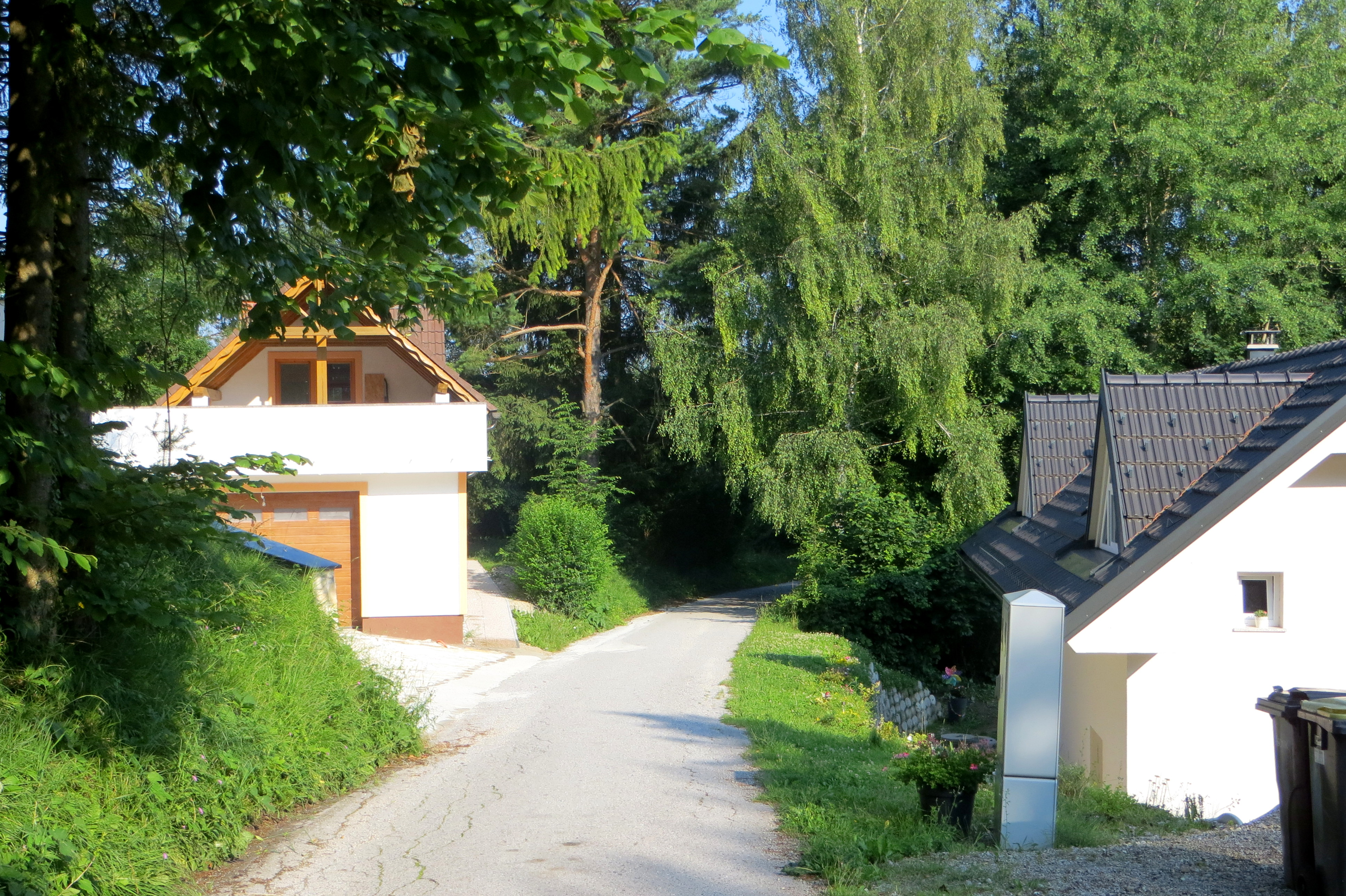 Korpe, Municipality of Lukovica, Slovenia